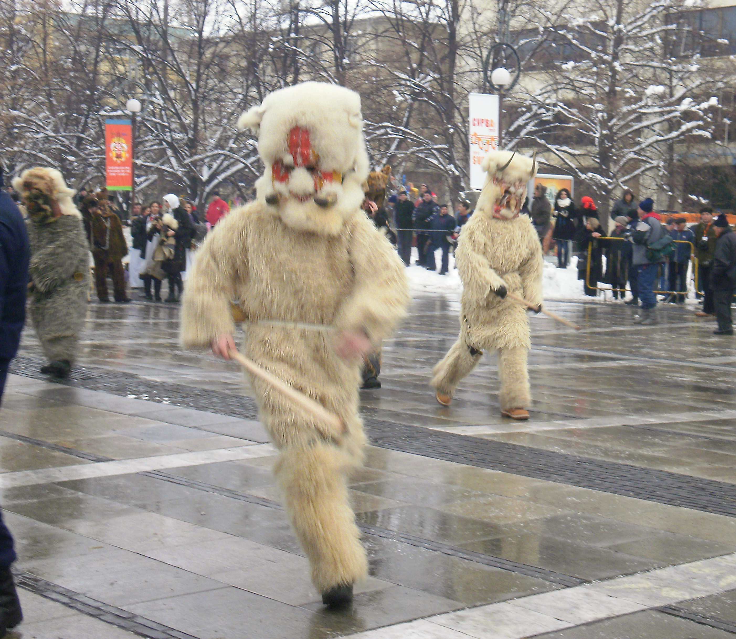 Koledari from Leskovac, Serbia - XXI International festival of masquerade games "Surva", Pernik 2012.